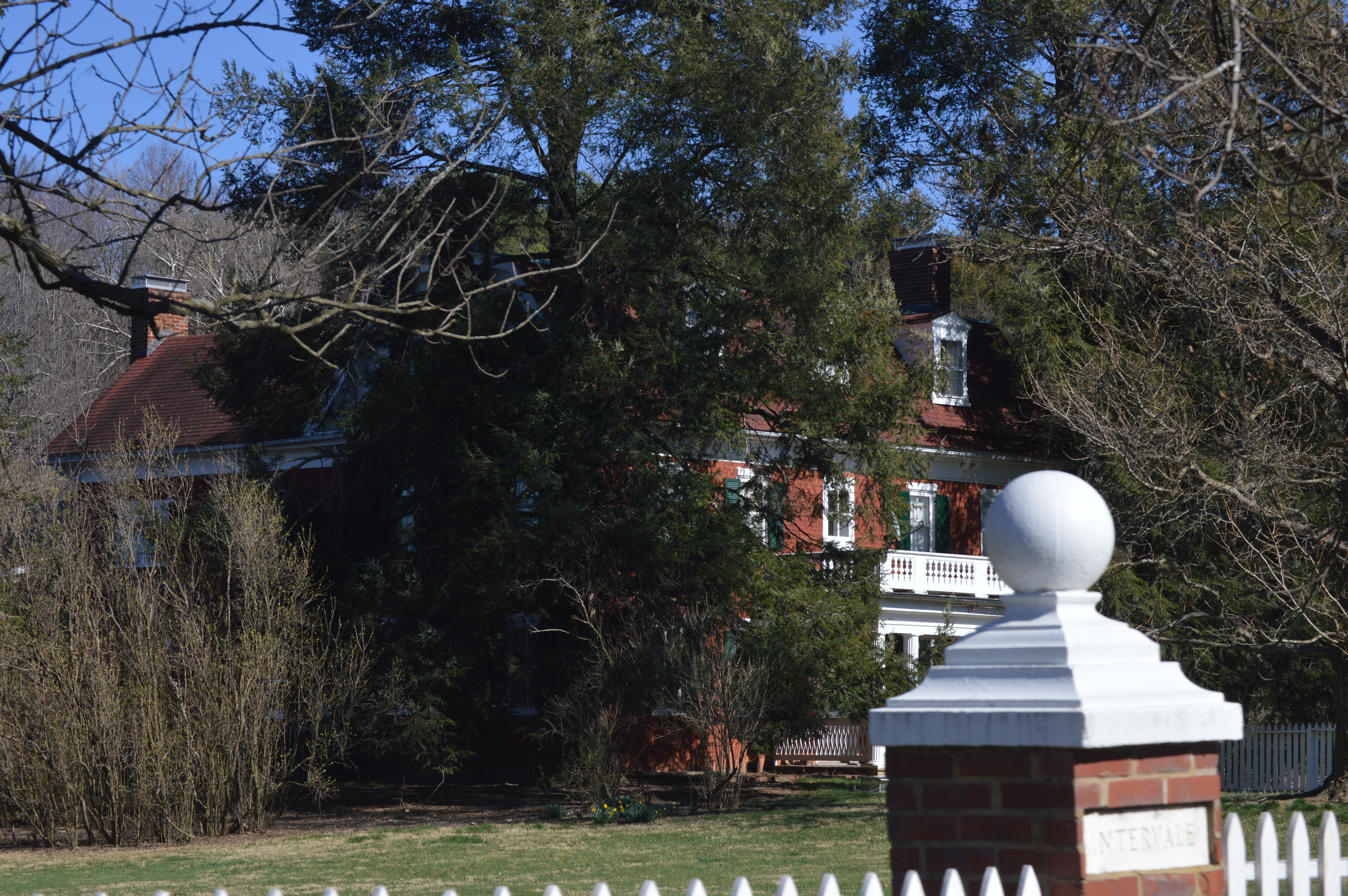 A partly obstructed view of Intervale (due to traffic conditions, a better view could not be obtained), located on Morris Mill Road southwest of Churchville in Augusta County, Virginia, United States. Built in 1819, it is listed on the National Register of Historic Places.